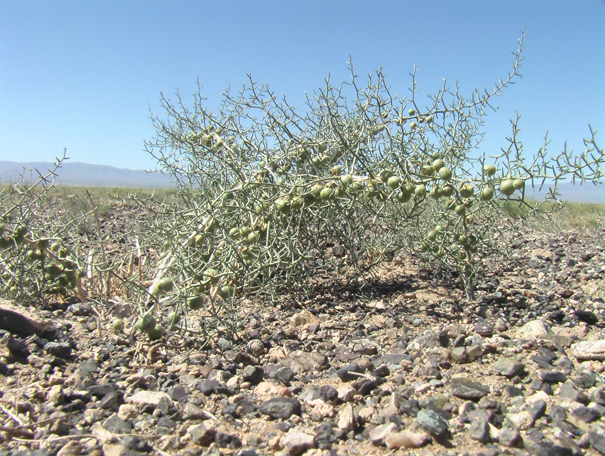 Asparagus gobicus N.Ivan. Chandmani sum, Khovd aimag, western Mongolia